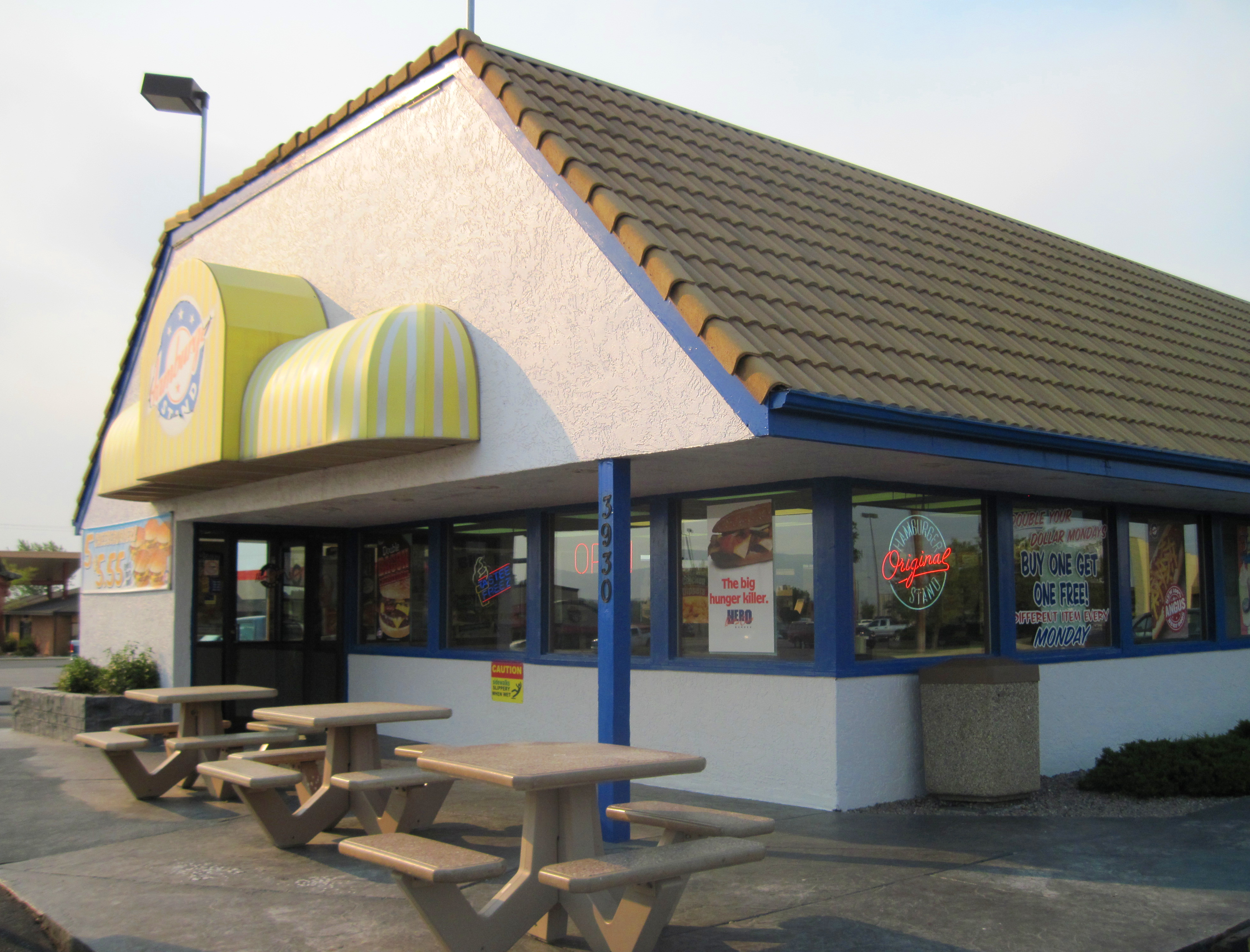 A branch location of The Original Hamburger Stand in Casper, Wyoming, on the north side of Second Street in front of Kmart.